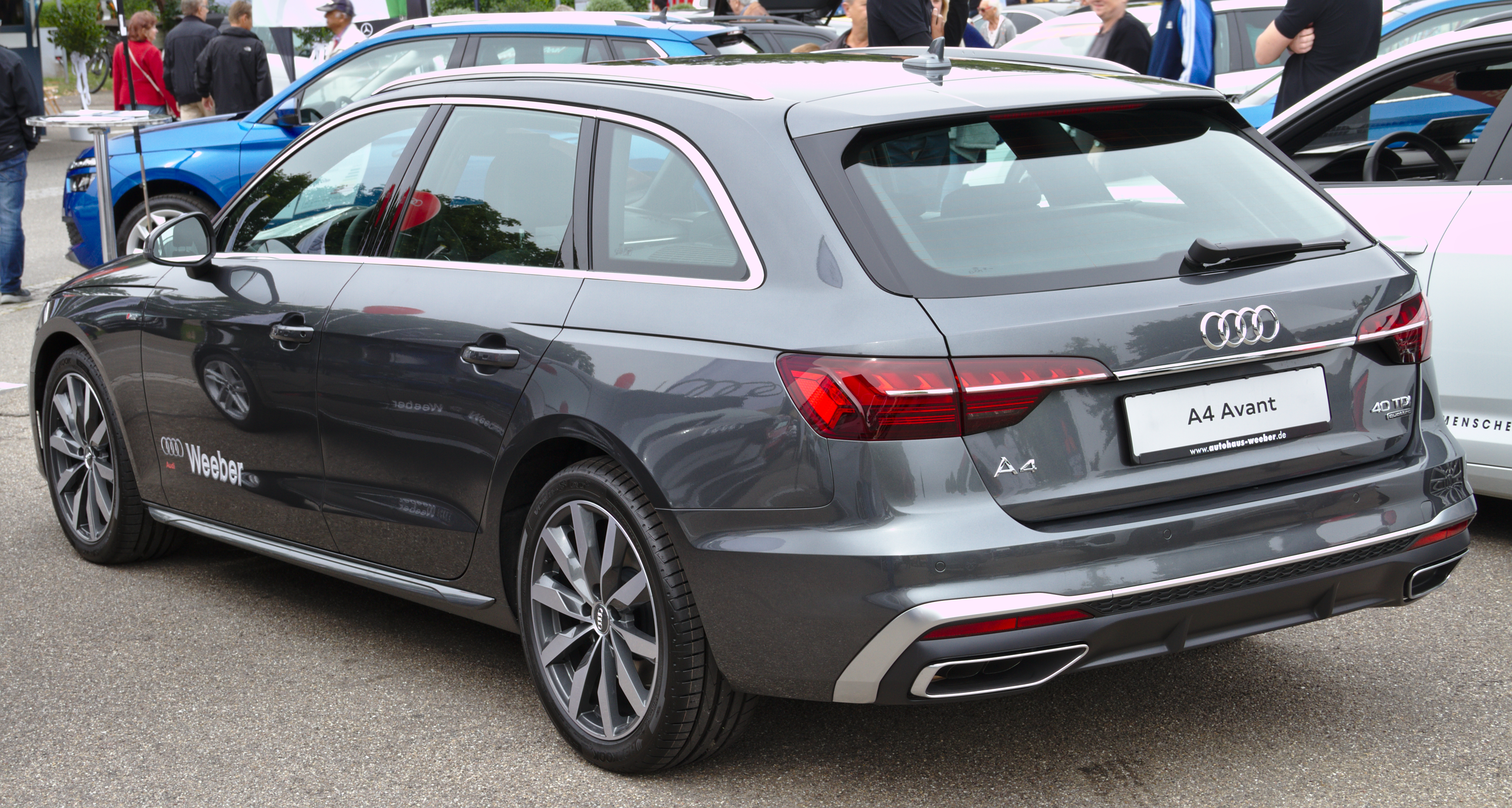 Audi_A4_Avant_B9 at Leonberger Autoschau 2019